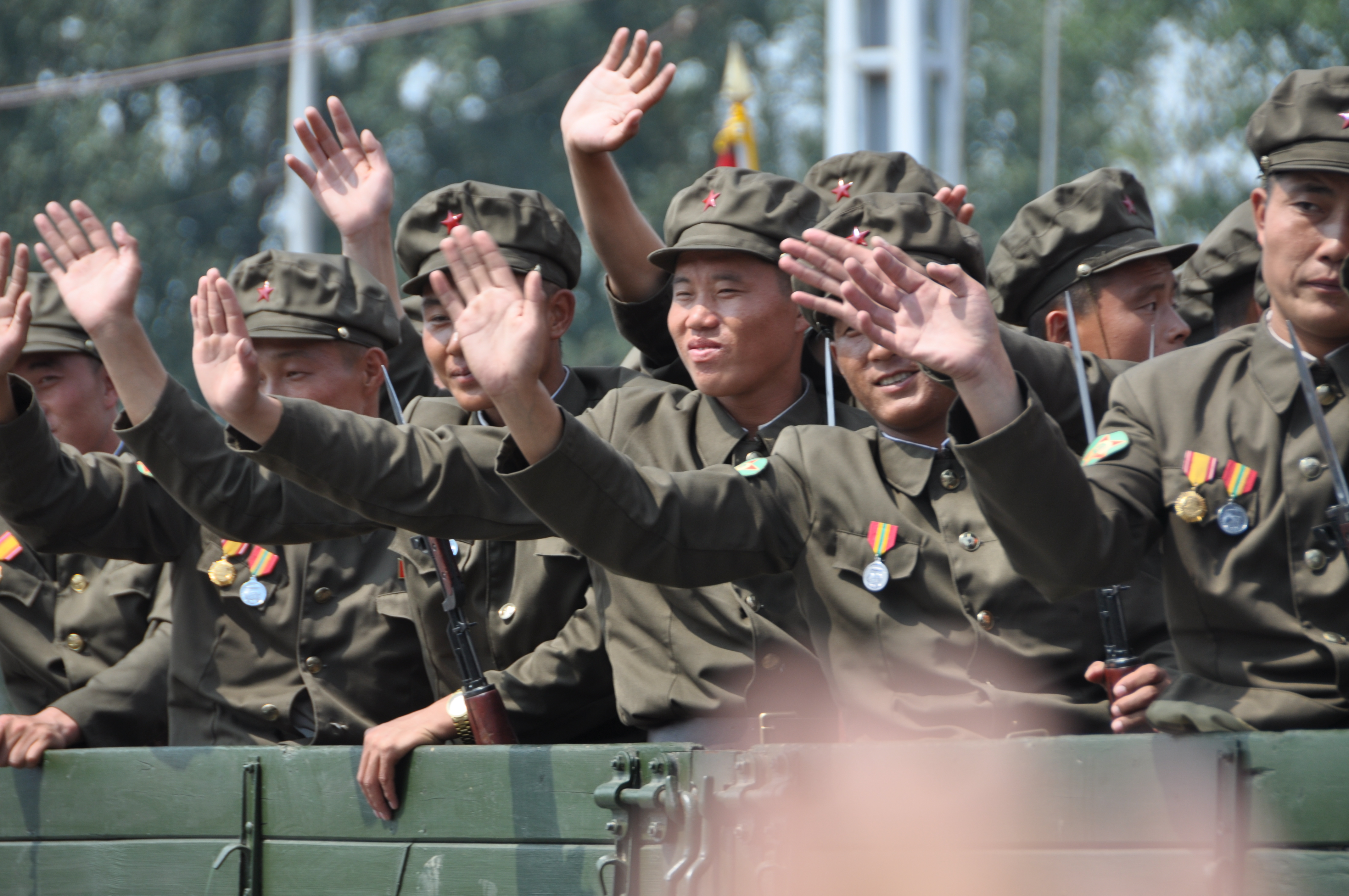 Young Men of the Student Guard